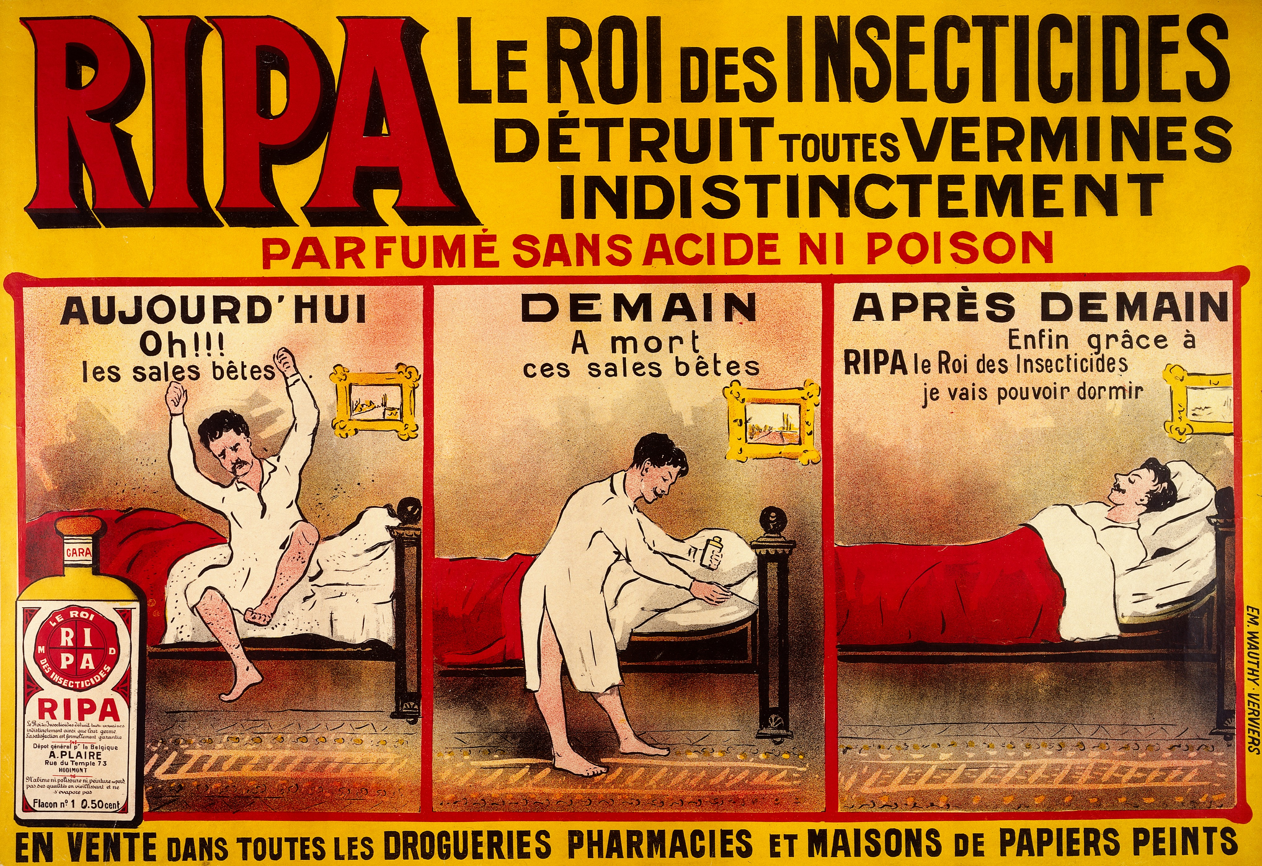 A man using RIPA insecticide to kill bedbugs and get a good night's sleep. Colour lithograph, ca. 1900. Iconographic Collections Keywords: POSTER; Insecticides; Pharmacy; advertising; INSECTICIDE; Posters